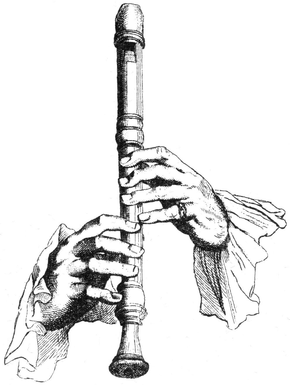 picture of a recorder in Hotteterre's method for the flute